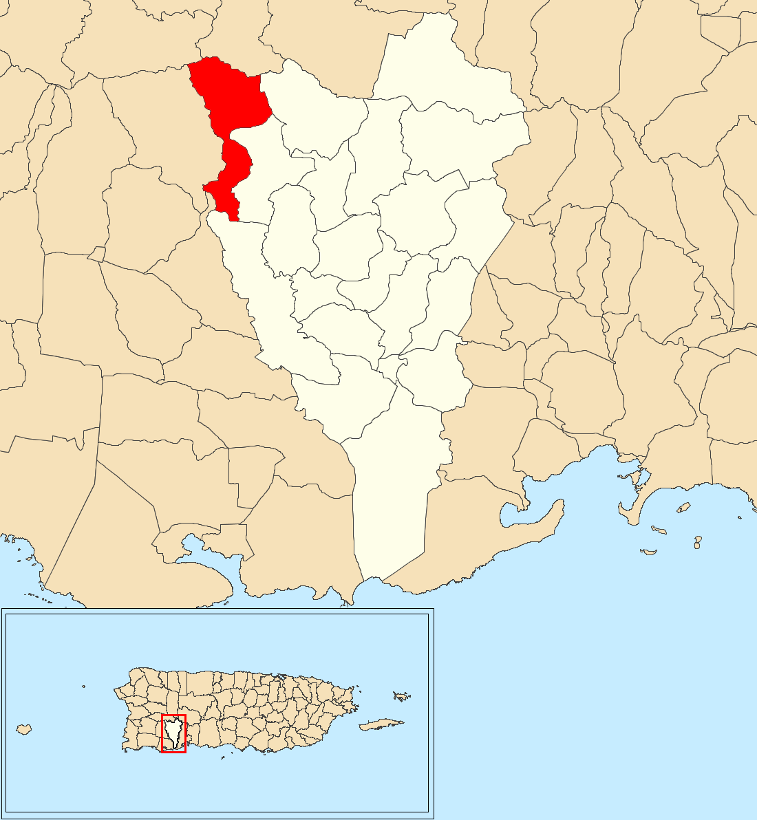 Frailes, Yauco, Puerto Rico locator map